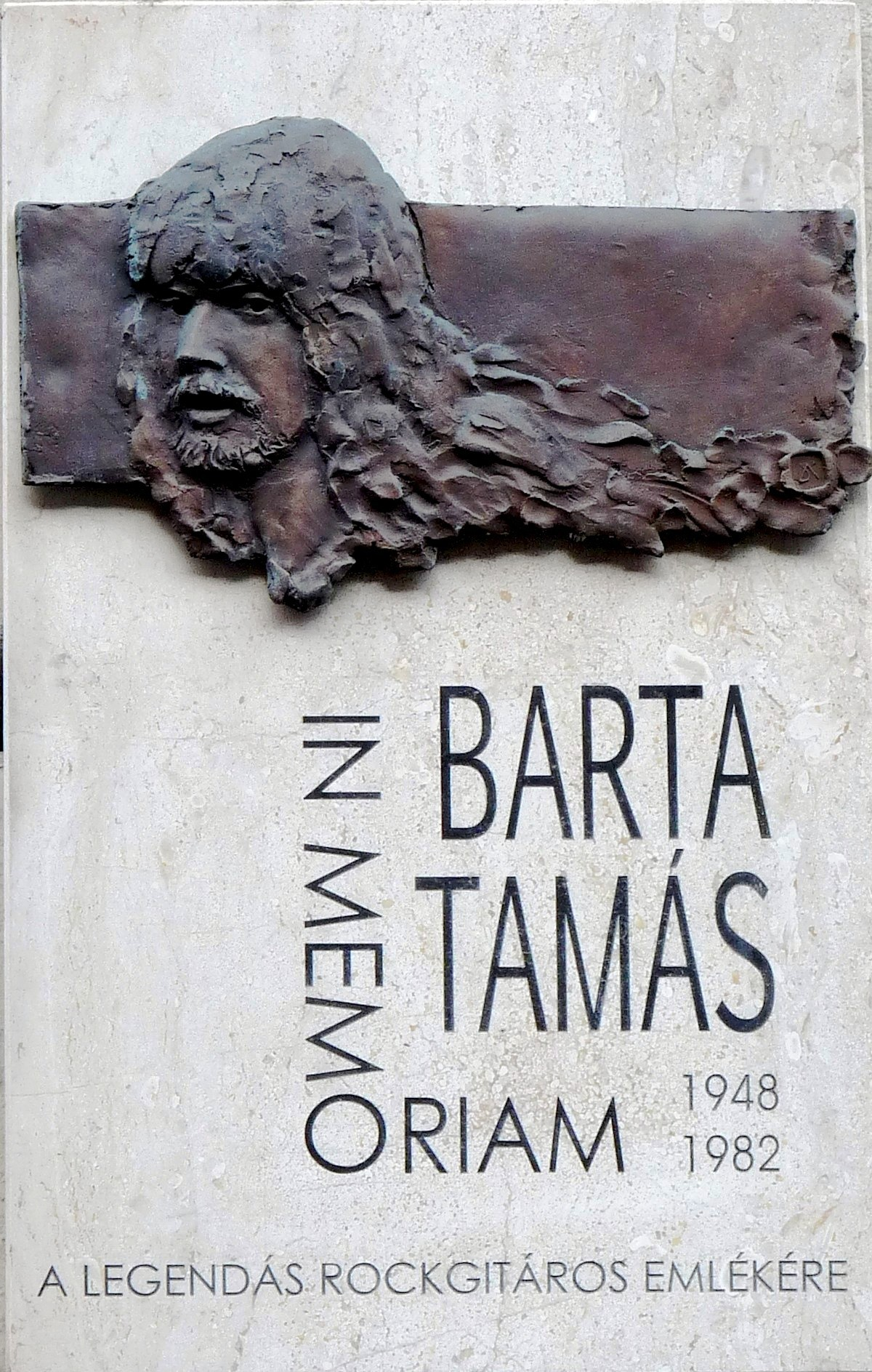 Tamás Barta commemorative plaque with relief in Budapest District VI, Izabella Street No 39/b. The bronze relief was created by the sculptor Árpád Deák.